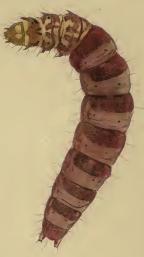 Stainton’s Natural History of the Tineina (1855–1873): Syncopacma taeniolella